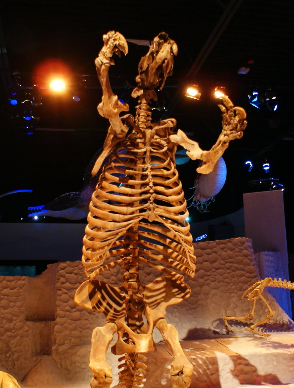 Cropped image of taxon in file name